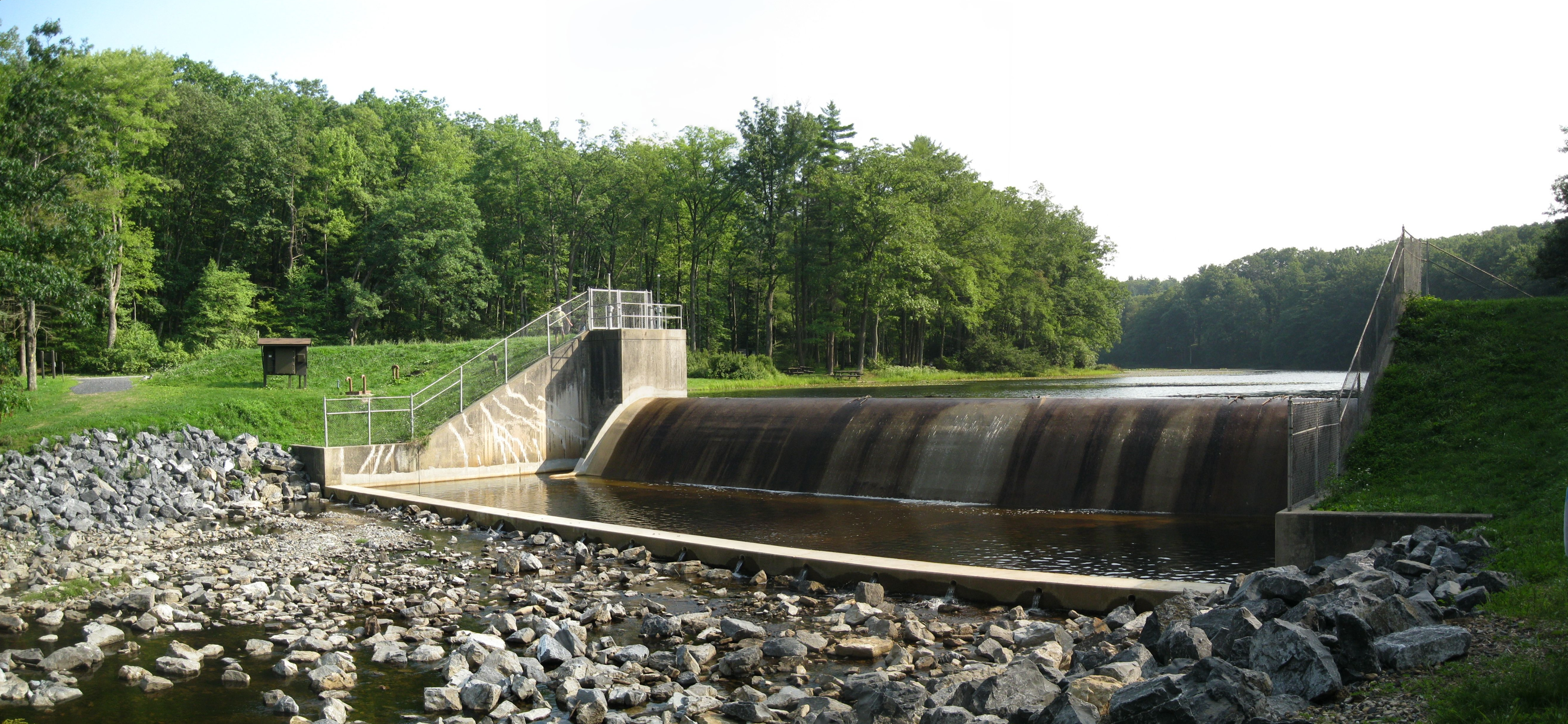 1950s Dam on Black Moshannon Lake at Black Moshannon State Park, near Phillipsburg, Rush Township, Centre County, Pennsylvania, USA.